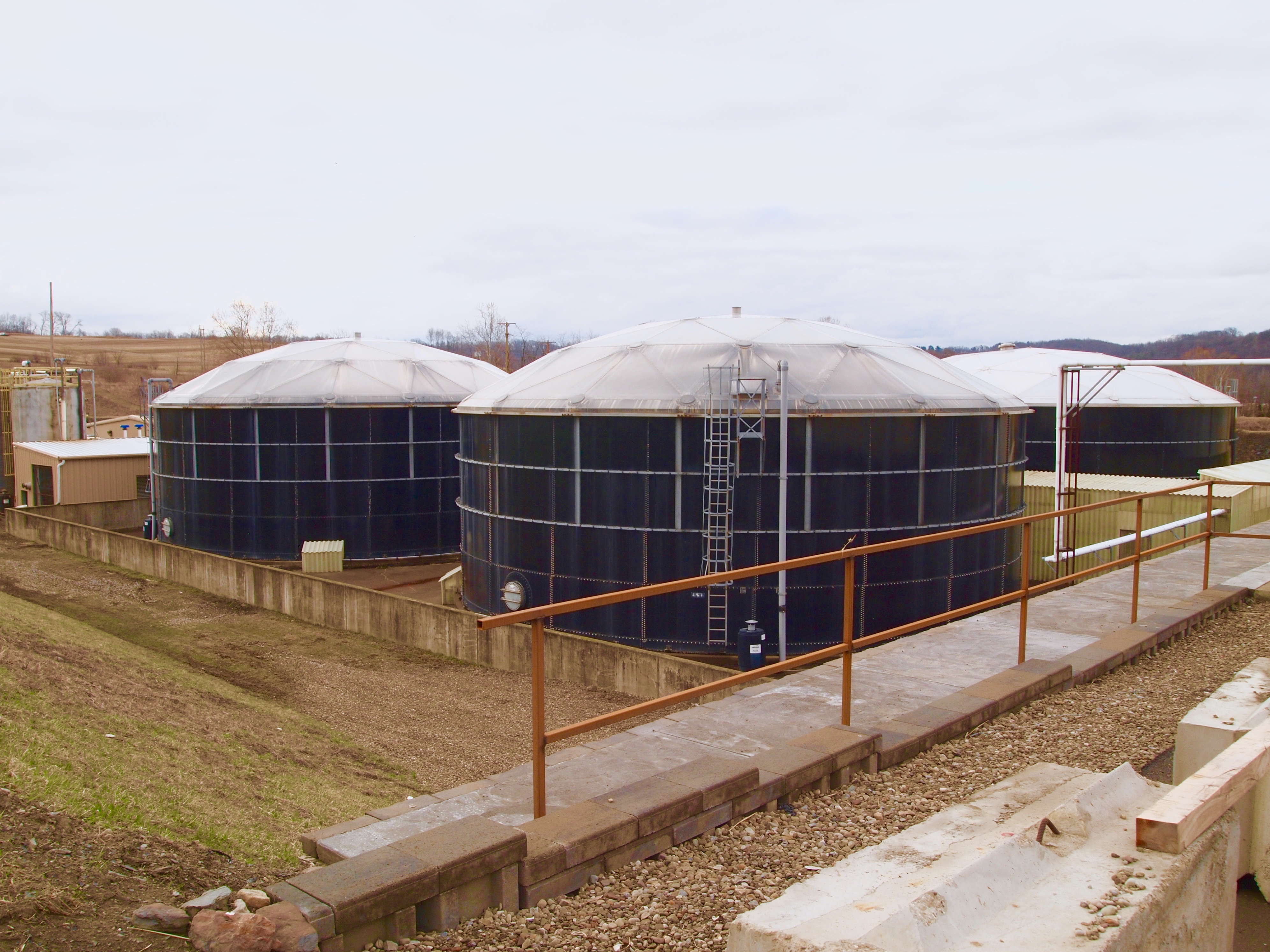 400,000 gallon leachate processing / equalization or storage tanks at Seneca Landfill, Evans City, Pennsylvania.